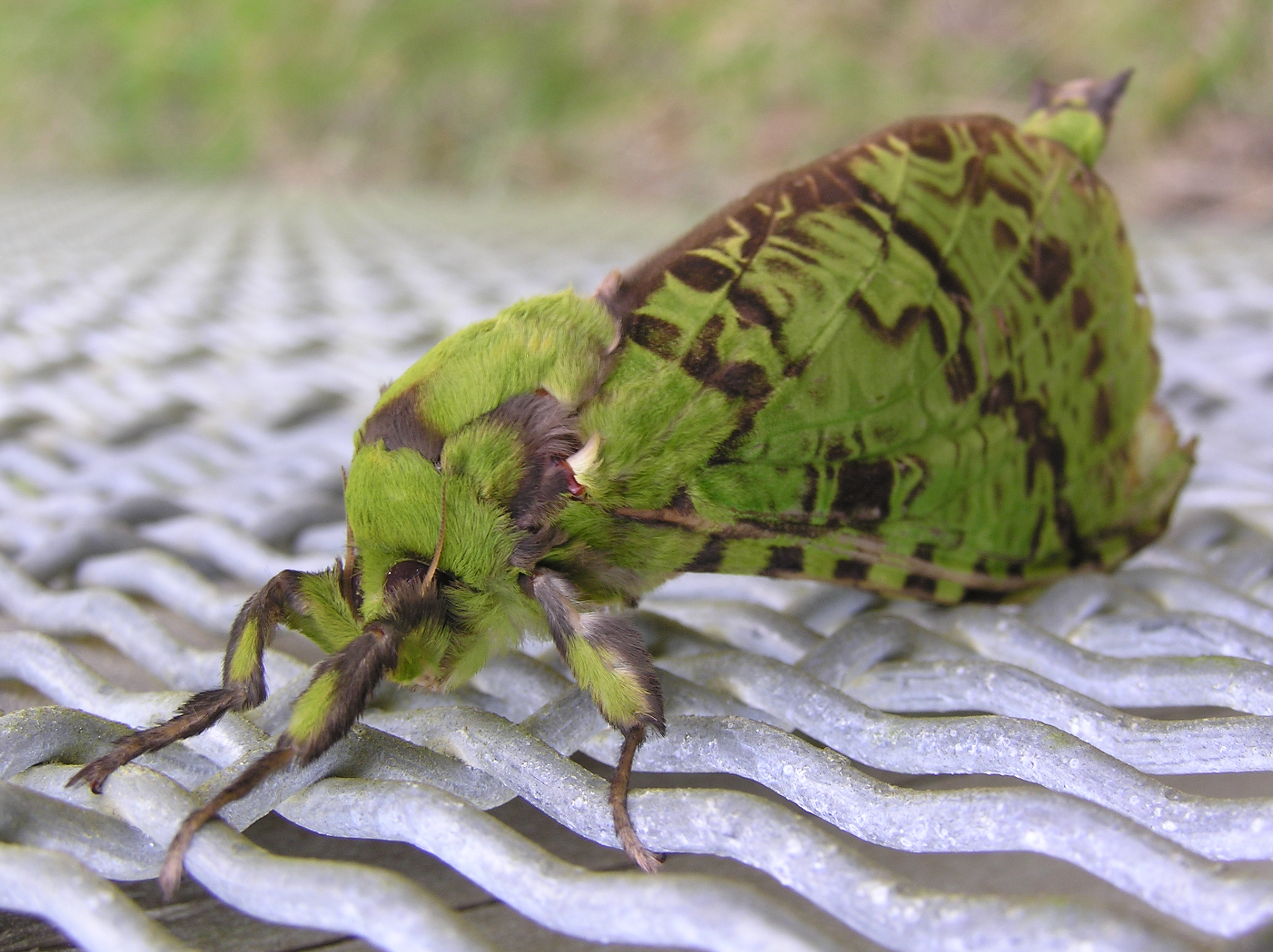 Female Puriri moth, Wellington, New Zealand. Māori: Pepe tuna; Mokoroa, Ngūtara; Pūngoungou.